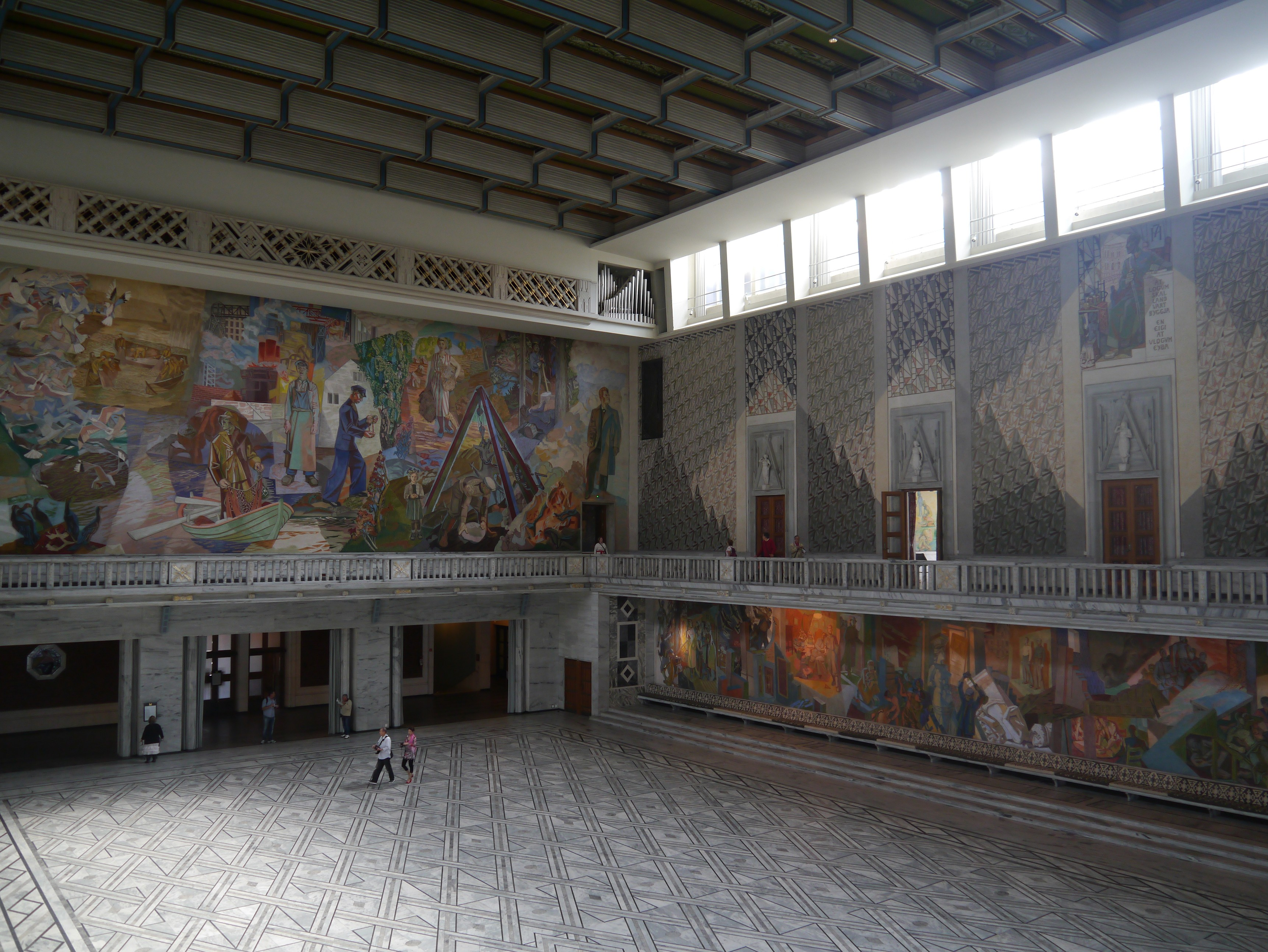 Great Hall of the City Hall, Oslo, Southern Norway